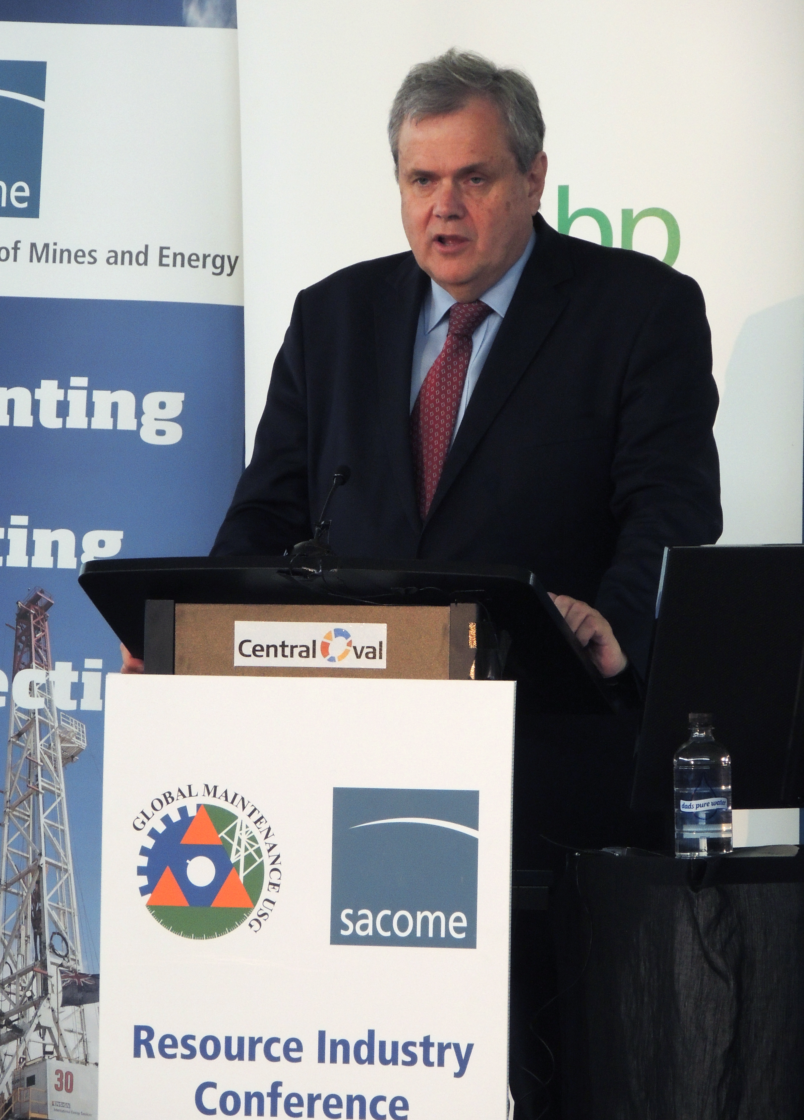 Paul Heithersay speaking at Global Maintenance Upper Spencer Gulf conference, Port Augusta, South Australia